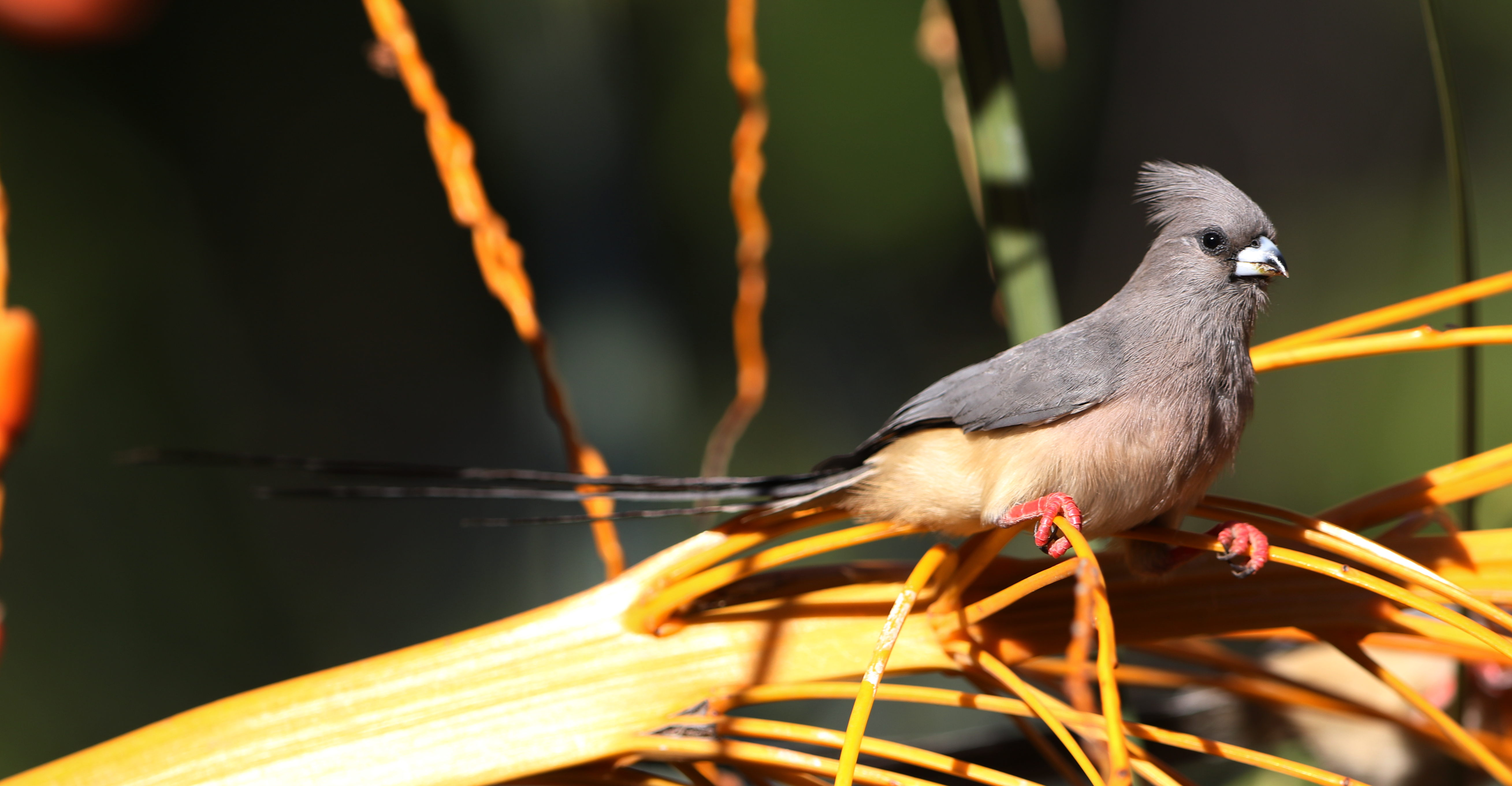 White-backed mousebird, Colius colius, just outside Kgalagadi Transfrontier Park, Northern Cape, South Africa